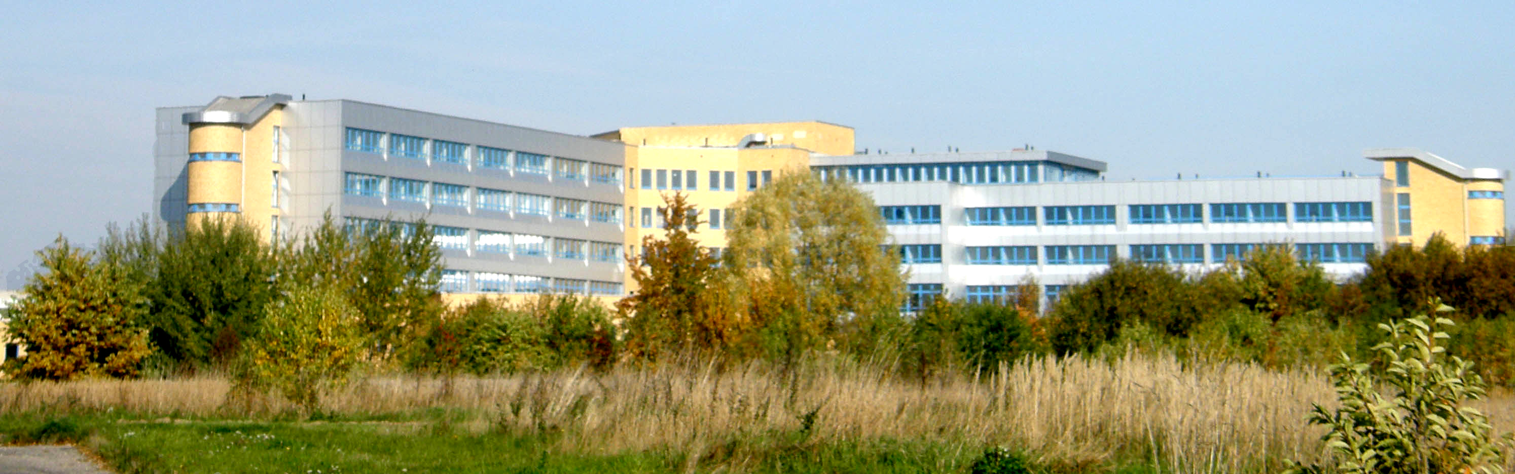 Hospital in Radomsko.